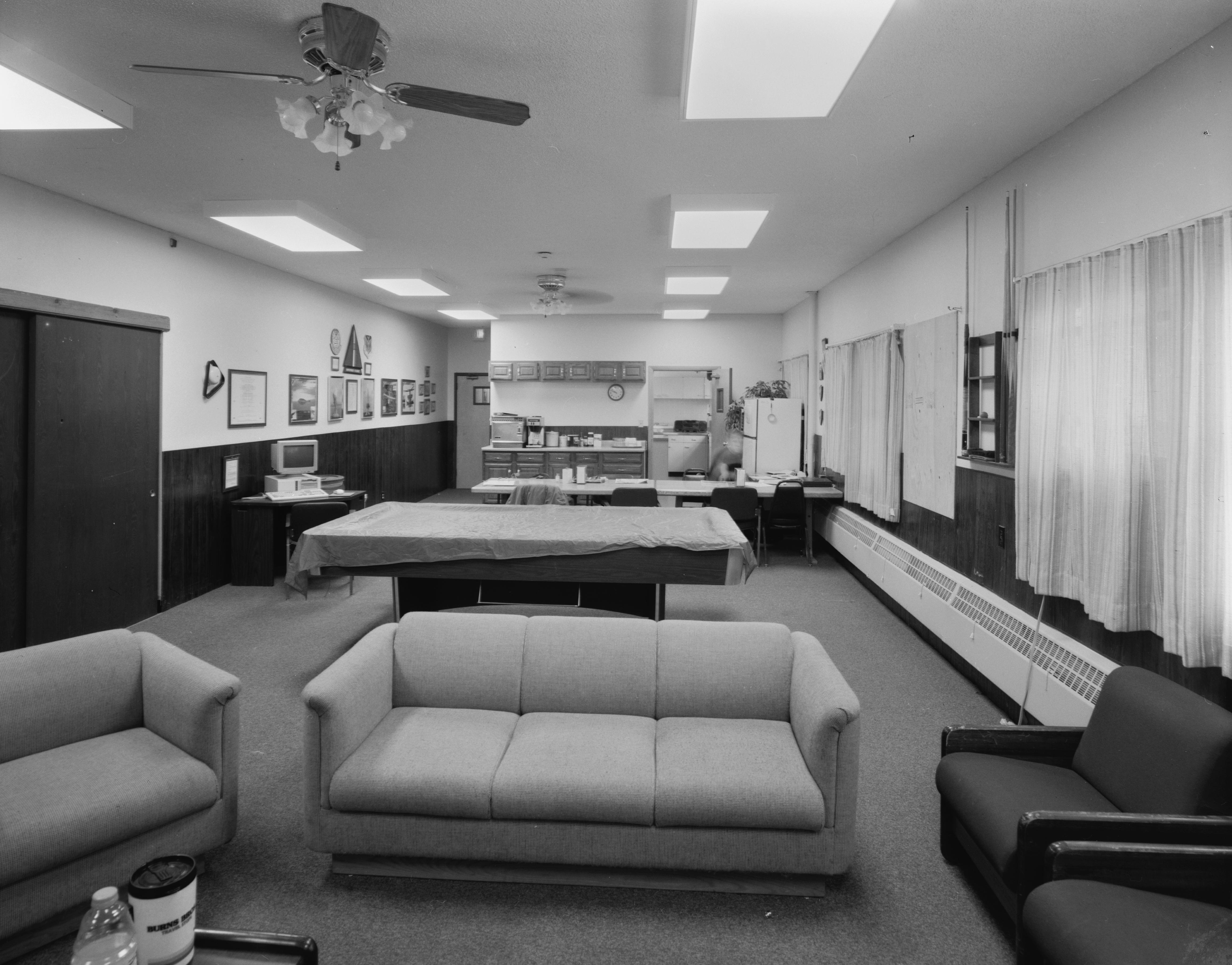 Lounge and dining area at the control building for a missile silo of F. E. Warren Air Force Base, located near New Raymer in Weld County, Colorado, United States.